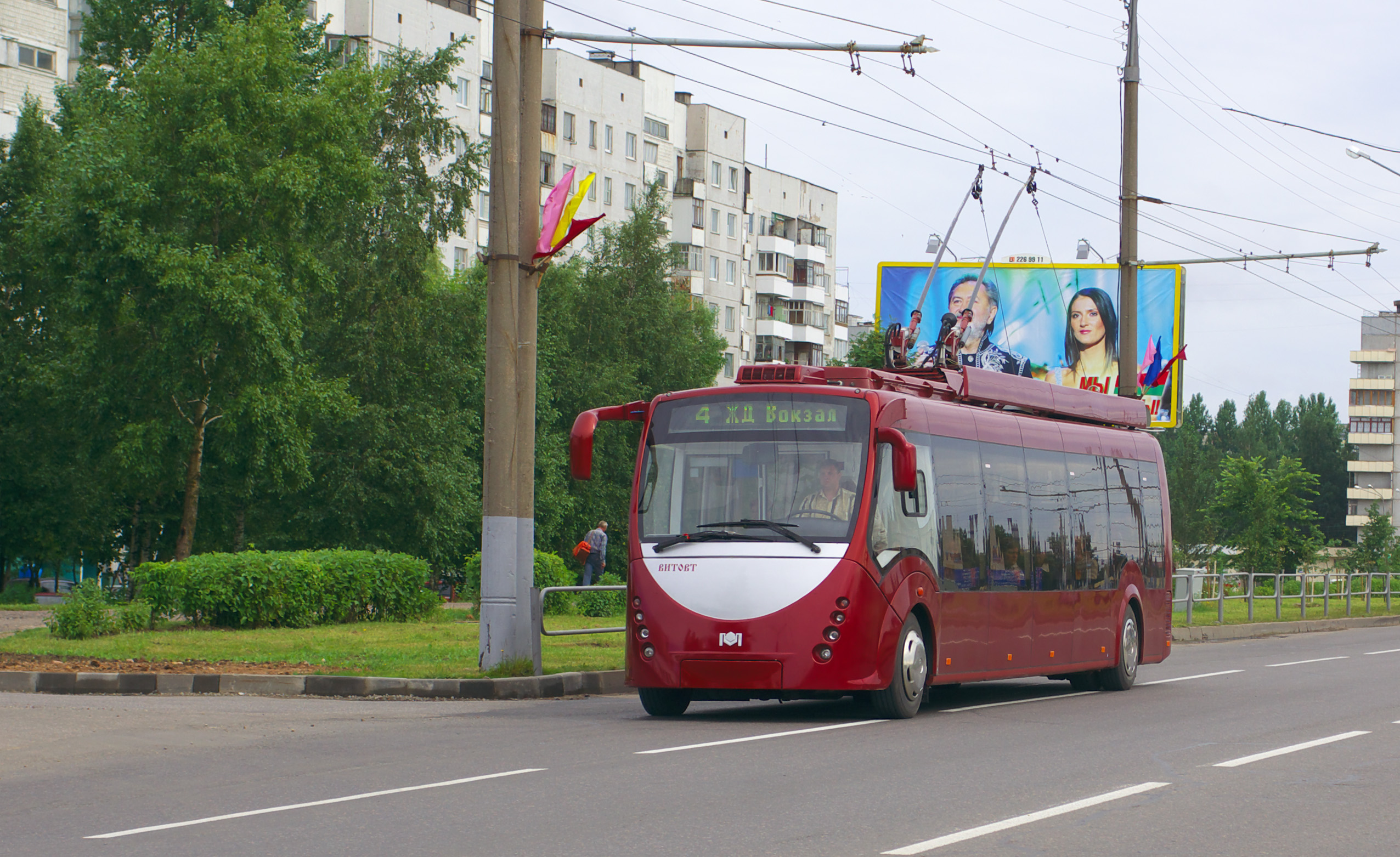 AKSM-420 Vitovt trolleybus on street in Vitebsk